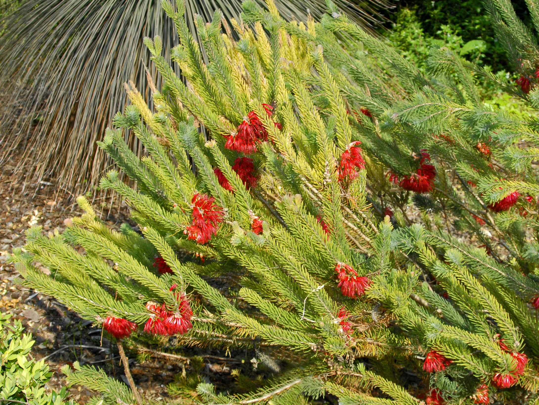 Shrub of Calothamnus villosus at Villa Durazzo-Pallavicini, Genova Pegli